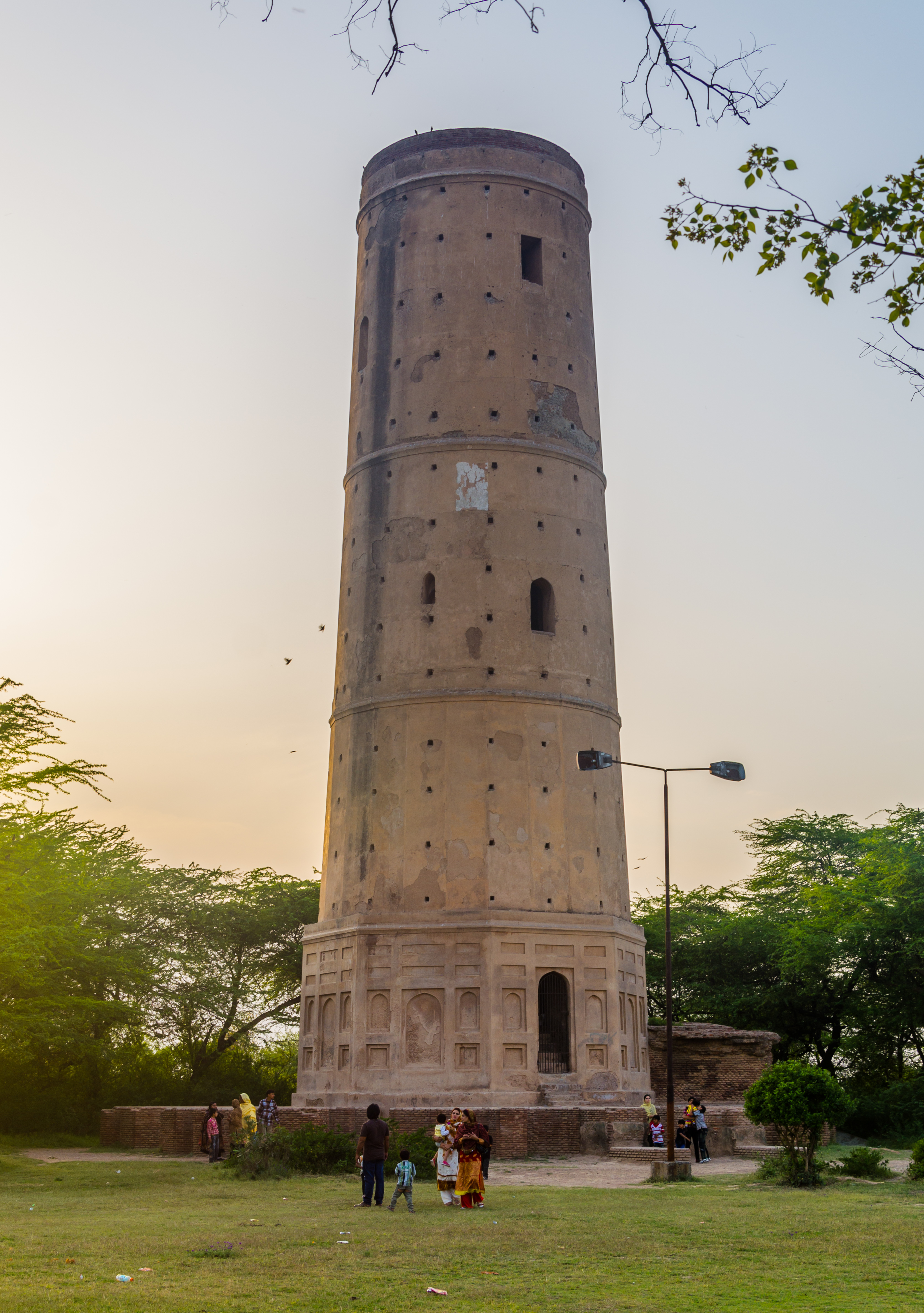 Hiran Minar and Tank This is a photo of a monument in Pakistan identified as the PB-145